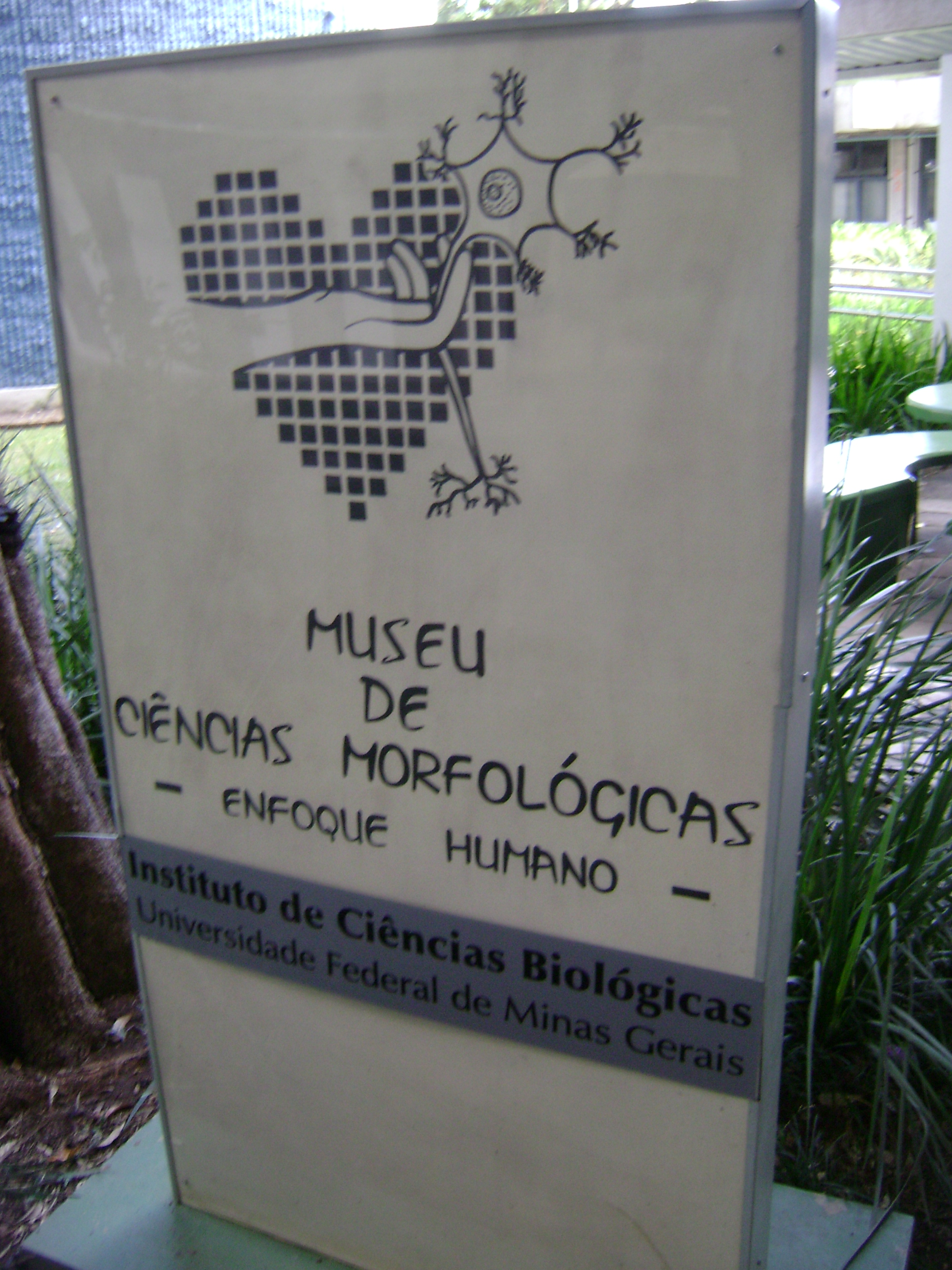 Sign of "Museu de Ciências Morfológicas" of Universidade Federal de Minas Gerais.